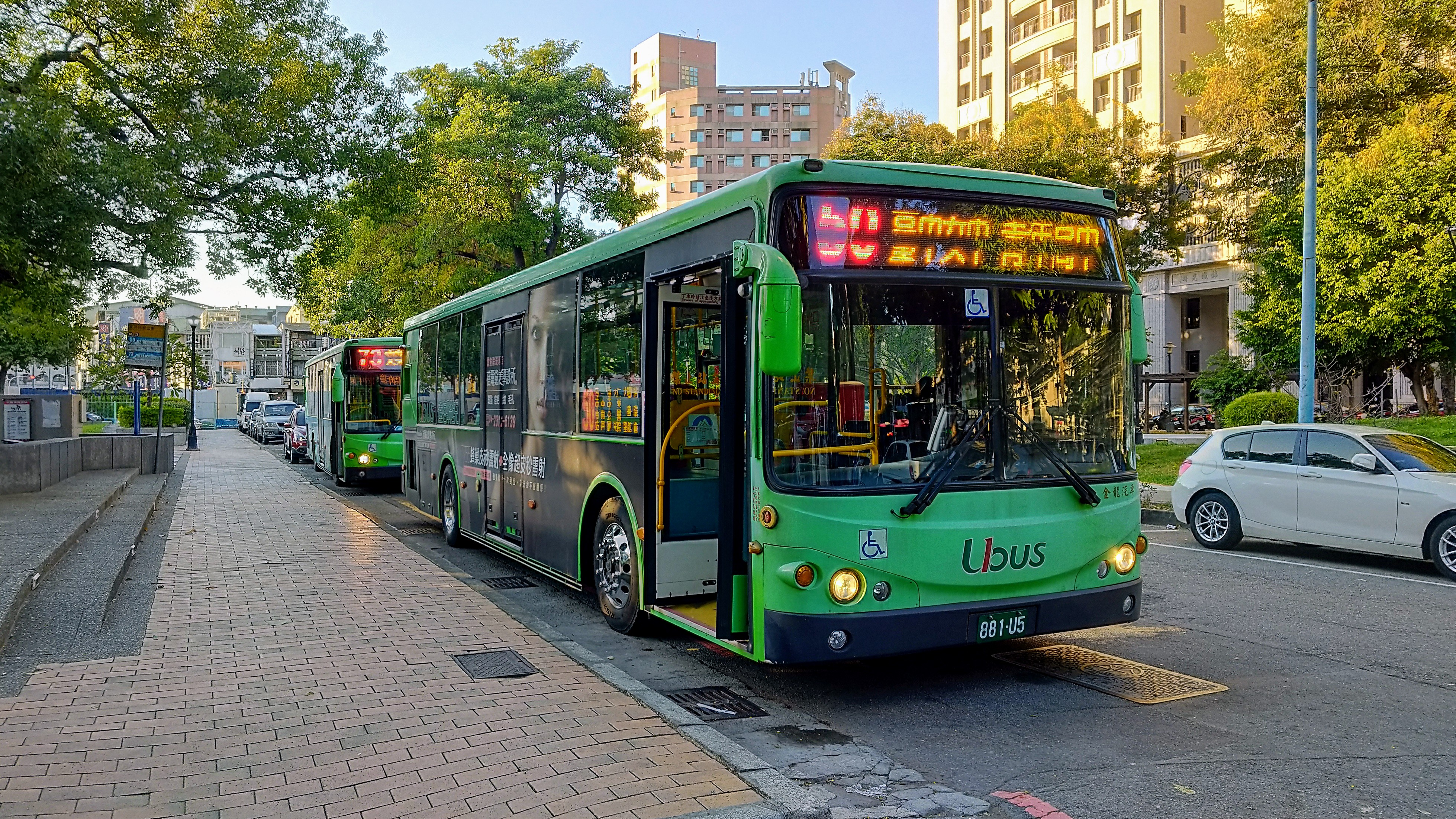 881-U5